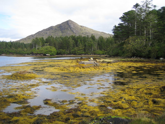 Láithreach (Lauragh): Derreen Garden Looking along the coastline at the north-western side of Derreen Garden. Knockatee is the distant peak in V7760